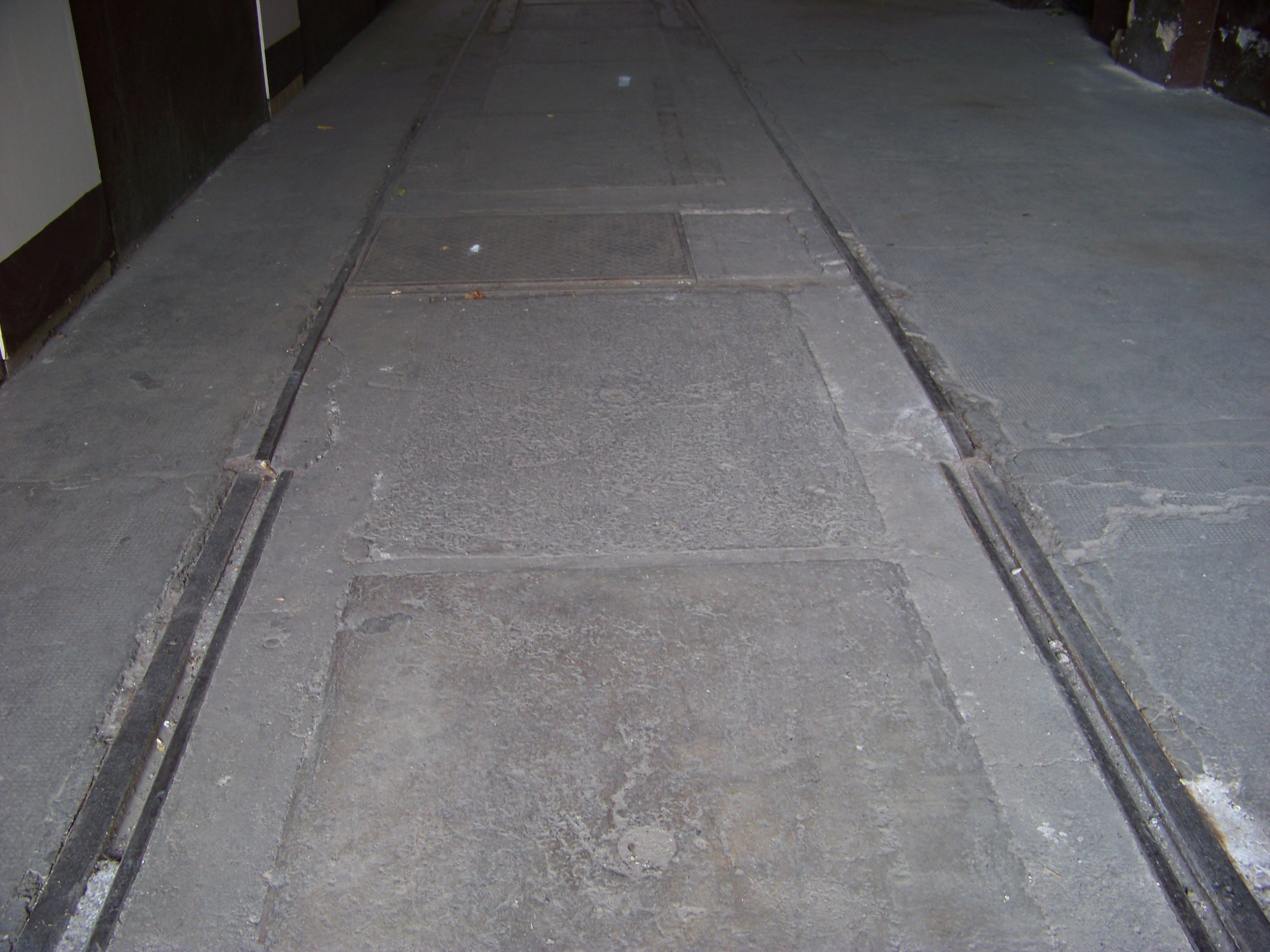 Prague-Vinohrady, the Czech Republic. Former tram depot.